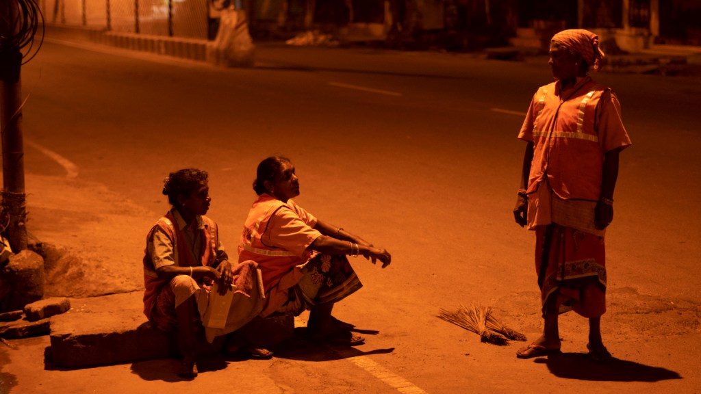 The Invisible Women Who Keep the City Clean